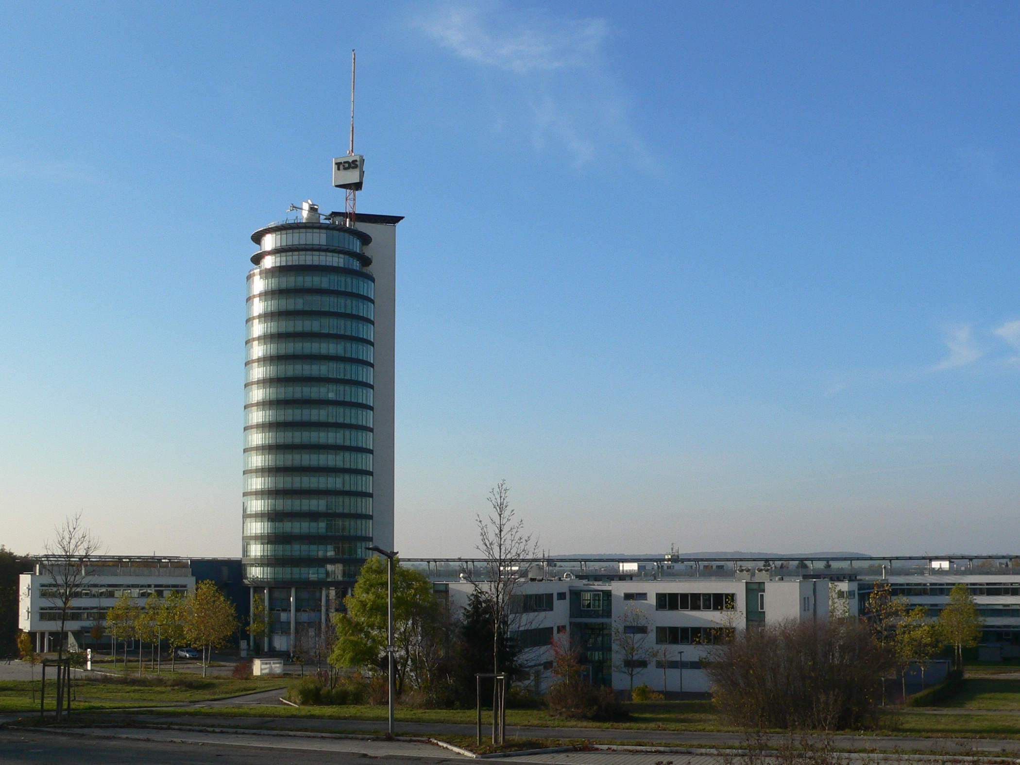 Building of the company TDS AG (called TDS-Tower) of the town Neckarsulm